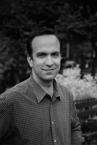 Ben Sherwood in 2009